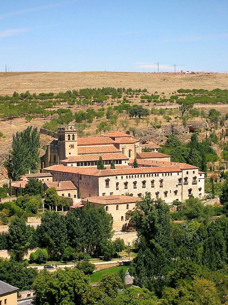 Monasterio de Santa María del Parral, Segovia (España)